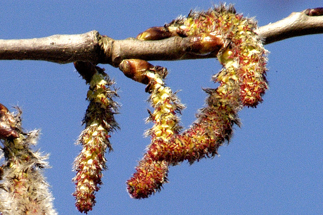 Populus tremula from Commanster, Belgian High Ardennes .